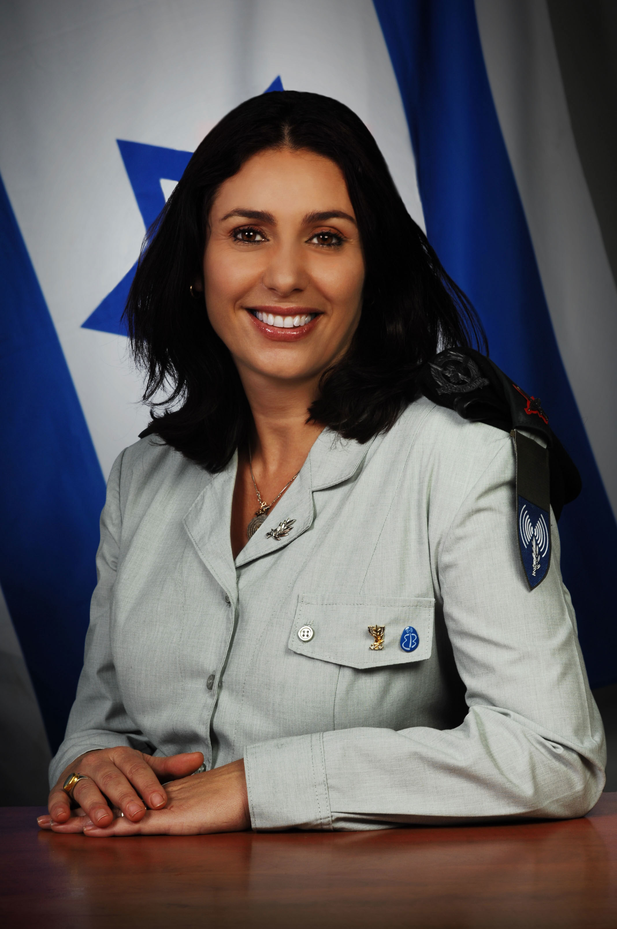 Major General Miri Regev, IDF spokesperson, decorated with the badge of President's Award for Outstanding Soldiers.